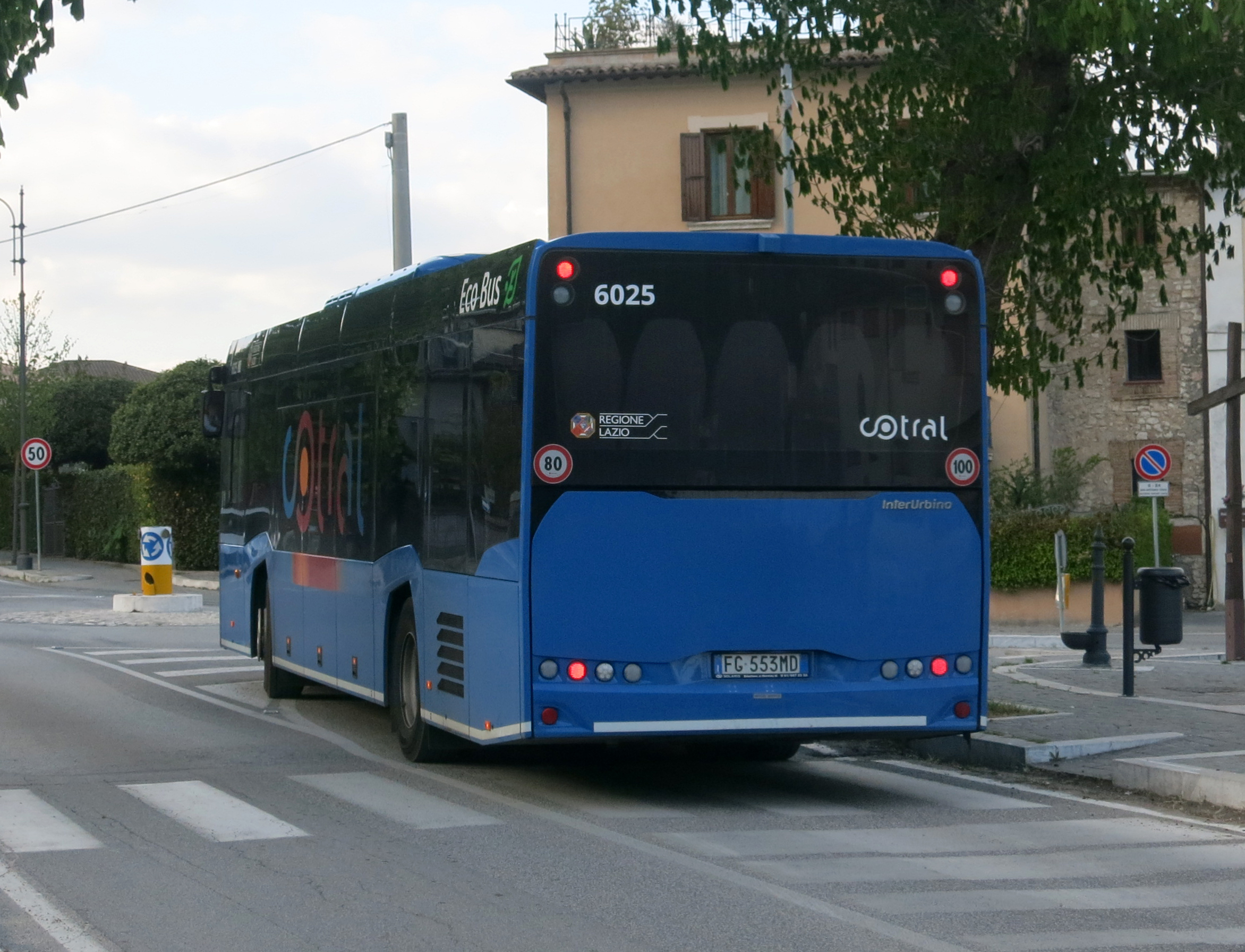 Solaris Interurbino bus number 6025 owned by Cotral in Contigliano (province of Rieti, Italy)